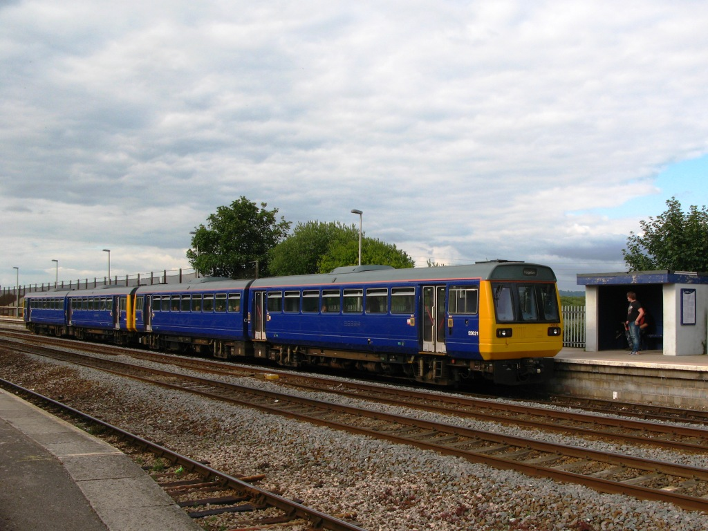 A First Great Western train to Paignton calls at Dawlish Warren station in Devon, England. It is formed of class 142s 4-wheel DMUs 142030 and 142063, both of which have been repainted in First Group blue but carry no ownership identification as they are shortly to be transferred to Northern Rail once additional bogie DMUs are transferred from London Midland.